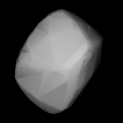 3D convex shape model of 1510 Charlois, computed using light curve inversion techniques. J. Hanuš, J. Ďurech, M. Brož, B. D. Warner (June 2011). "A study of asteroid pole-latitude distribution based on an extended set of shape models derived by the lightcurve inversion method". Astronomy and Astrophysics 530: A134. ISSN 0004-6361. arXiv